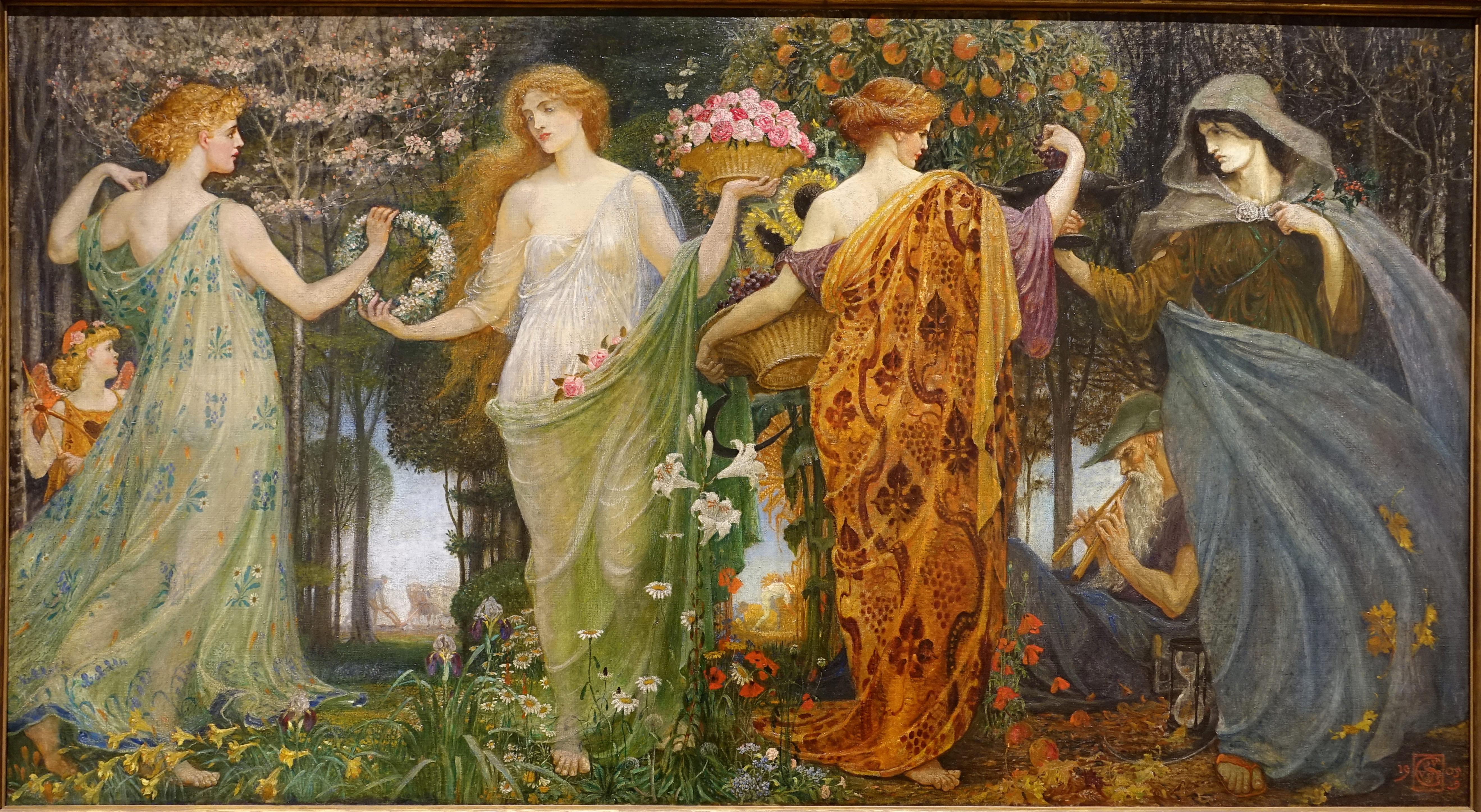 Exhibit in the Hessisches Landesmuseum Darmstadt - Darmstadt, Germany.